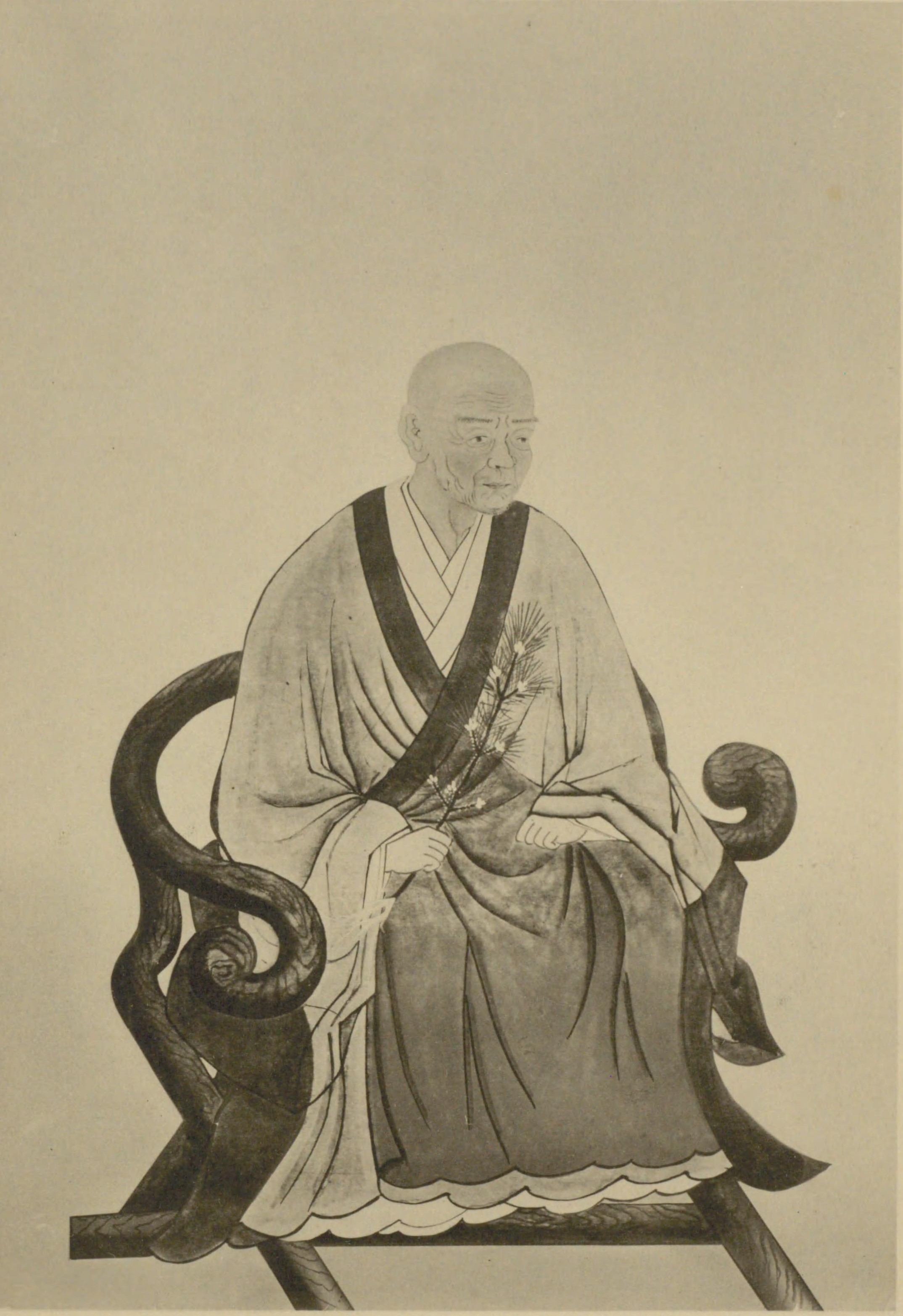 Portrait of Ema Ransai